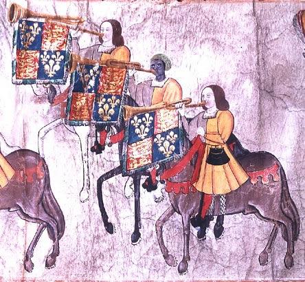 The national archives describe this thus: "an extract from the 60ft-long Westminster Tournament Roll, shows six trumpeters, one of whom is Black and is almost certainly John Blanke. All the trumpeters are wearing yellow and grey, with blue purses at their waists. John Blanke is the only one wearing a brown turban latticed with yellow. He is mounted on a grey horse with a black harness."